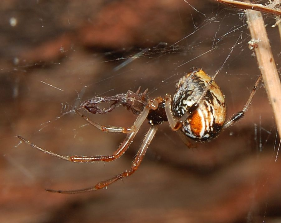 Parasteatoda lunata, female, Grunewald, Berlin, Deutschland